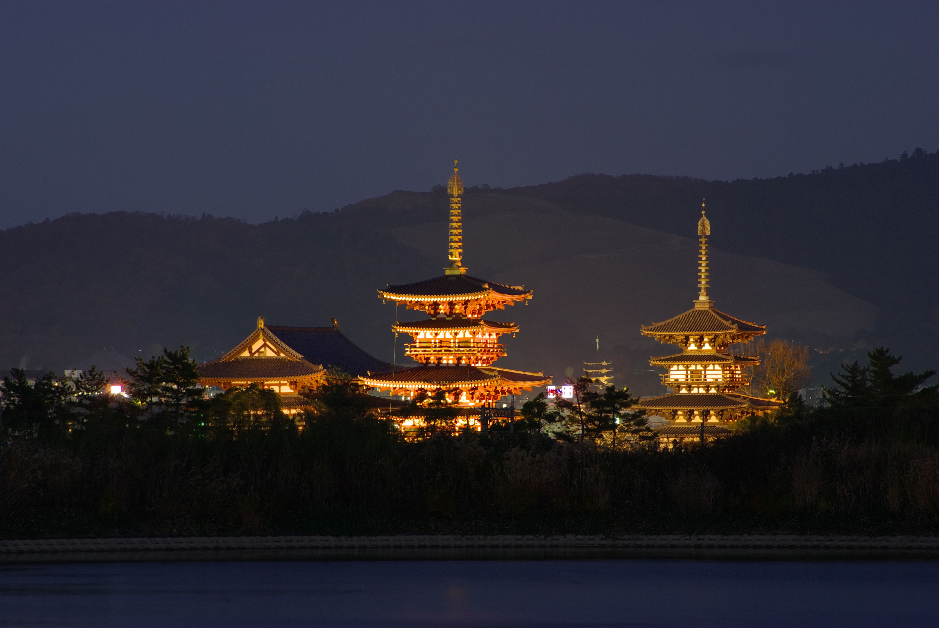 The night view of both pagodas of east and west at Yakushiji-temple